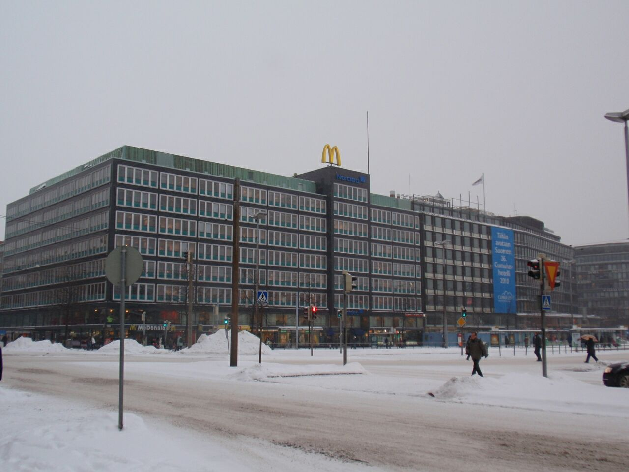 Paasitalo at Siltasaarenkatu 12, Siltasaari, Helsinki, Finland. The building was the headquarters of Suomen Työväen Säästöpankki (Savings bank of finnish workers) between 1958-1992. Completed in 1958, designed by architect Martti Välikangas.